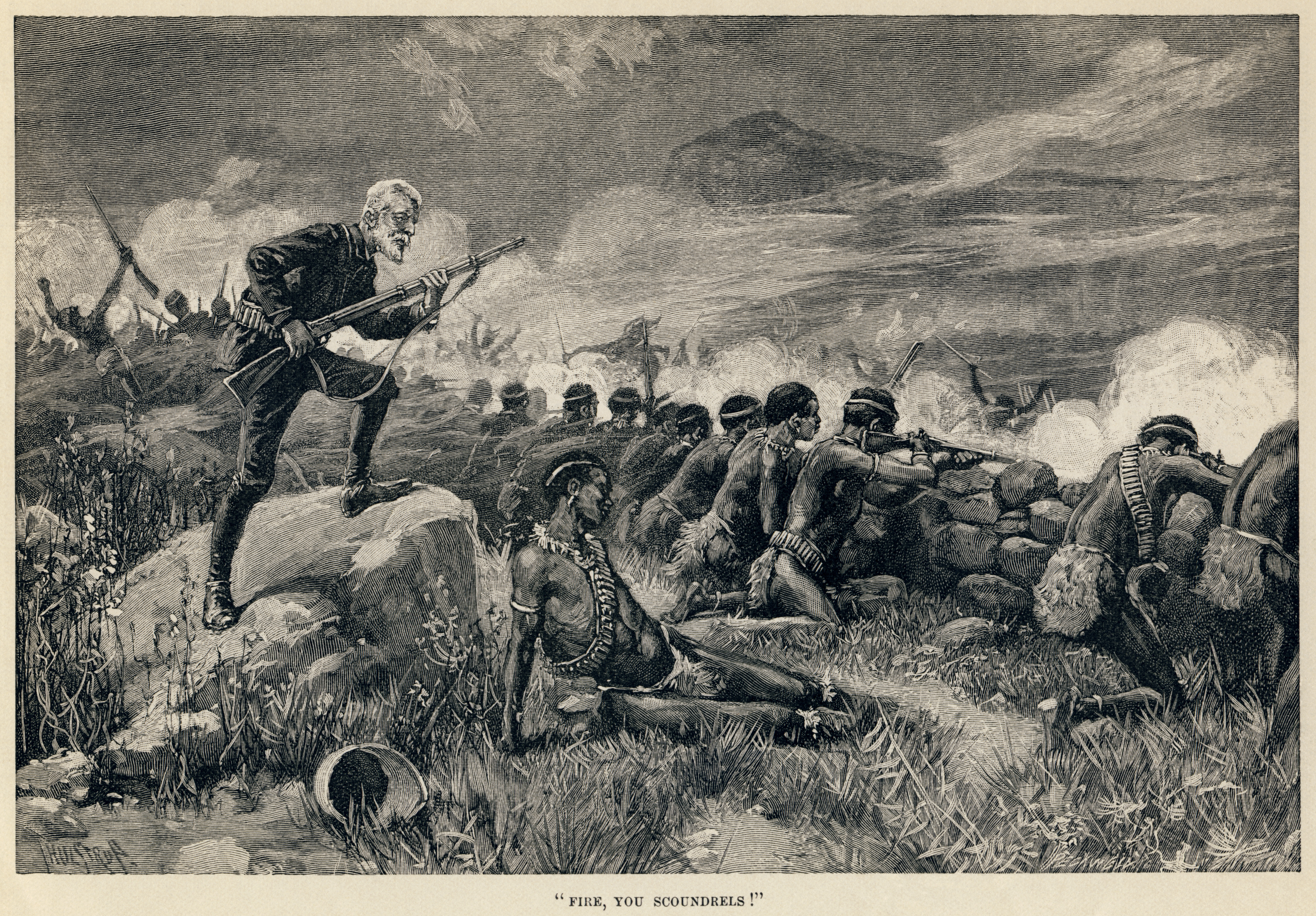 Illustration from H. Rider Haggard's Maiwa's Revenge, Chapter VII, by Thure de Thulstrup. The scene shows Allan Quatermain ordering the men to fire, after getting them to wait until the most opportune moment: “ "Now they are going to begin," I thought to myself, and I was not far wrong, for in another minute the body of men divided into three companies, each about five hundred strong, and, heralded by a running fire, charged at us on three sides. Our men were now all well under cover, and the fire did us no harm. I mounted on a rock, so as to command a view of as much of the koppie and plain as possible, and yelled to our men to reserve their fire till I gave the word, and then to shoot low, and load as quickly as possible. I knew that, like all natives, they were sure to be execrable shots, and that they were armed with weapons made out of old gas-pipes, so the only chance of doing execution was to let the enemy get right on to us. On they came with a rush. They were within eighty yards now, and as they drew near the point of attack, I observed that they closed their ranks, which was so much the better for us. "Shall we not fire, my father?" sung out the captain. "No—confound you!" I answered. "Sixty yards — fifty — forty — thirty. Fire, you scoundrels!" I yelled, setting the example by letting off both barrels of my elephant gun into the thickest part of the company opposite to me. ”